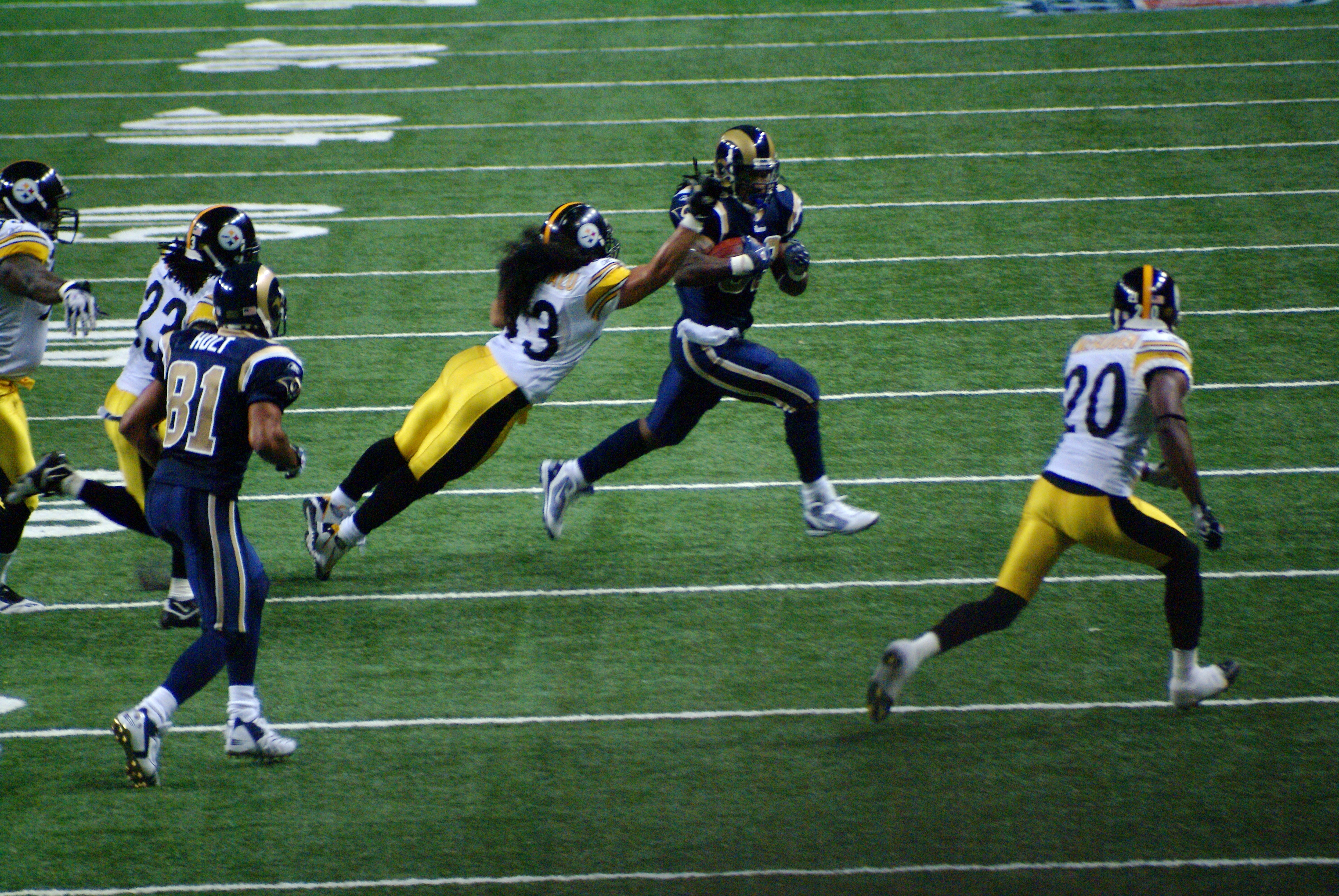 Troy Polamalu dives in an attempt to tackle a St. Louis ball carrier. Rams vs Steelers in St Louis.